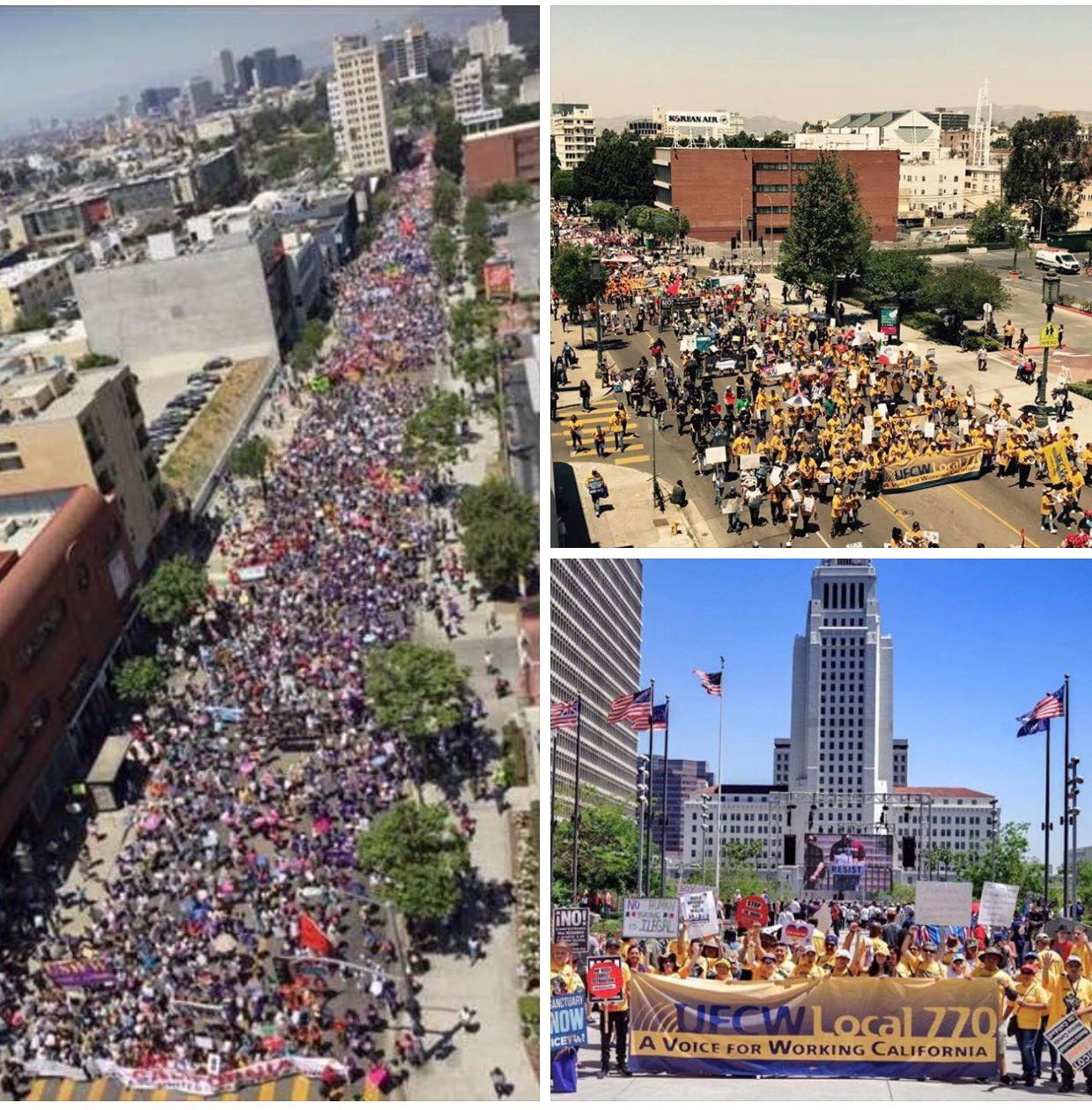 2017 May Day (16) May Day 2017 in Los Angeles, California